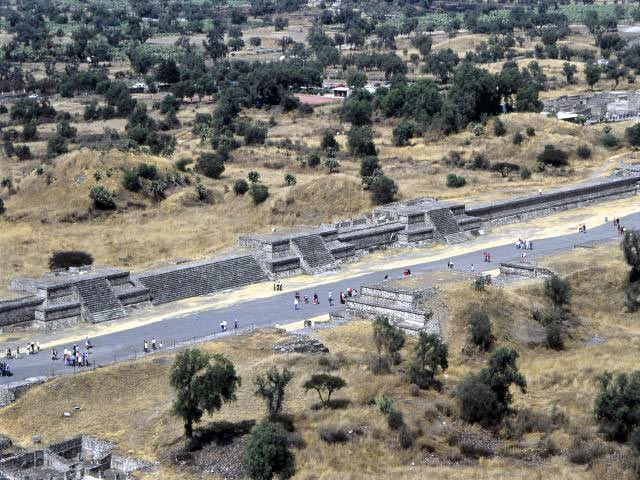 View of the Avenue of the Dead from top of Pyramid of the Sun, Teotihuacán, Mexico.